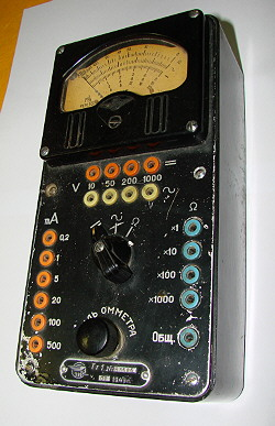 Soviet multimeter TT-1 (circa 1949)